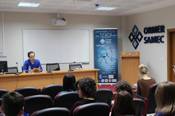 Quds hall